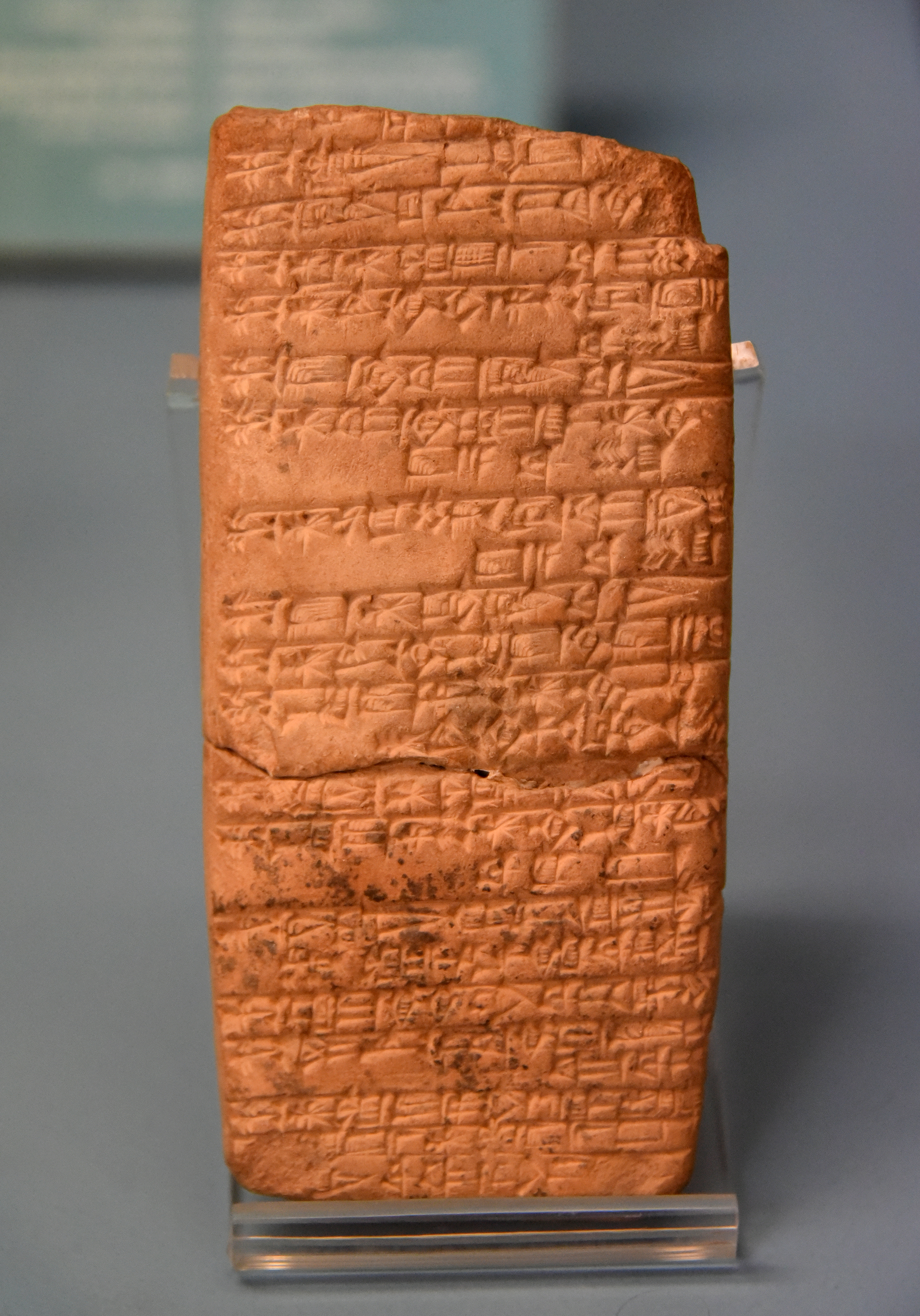 Terracotta tablet listing the year formulae of king Shulgi. Ur III period, 2094-2047 BCE. From Southern Mesopotamia, Iraq. Ancient Orient Museum, Istanbul.